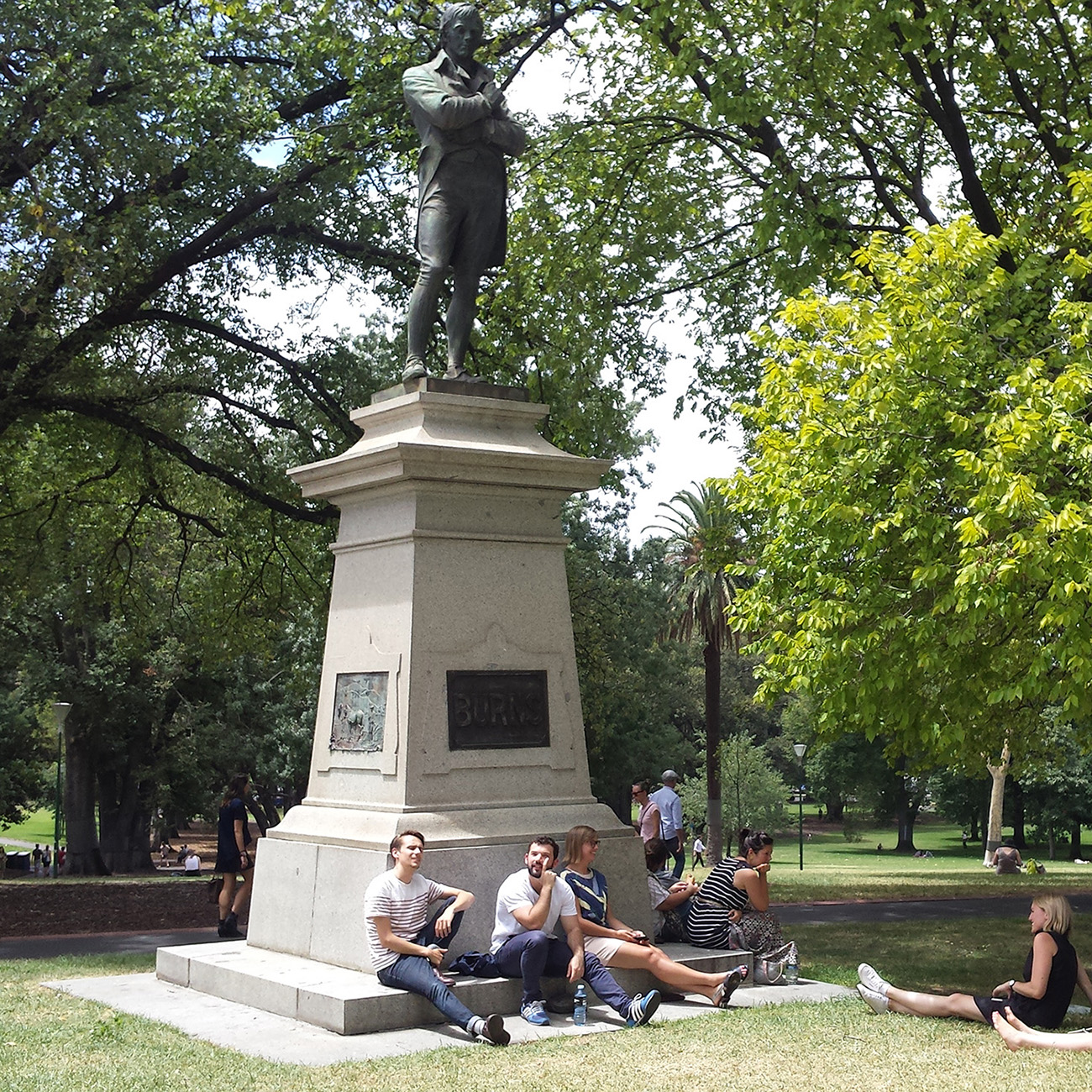 Robert Burns statue Treasury Gardens along Spring Street in Melbourne